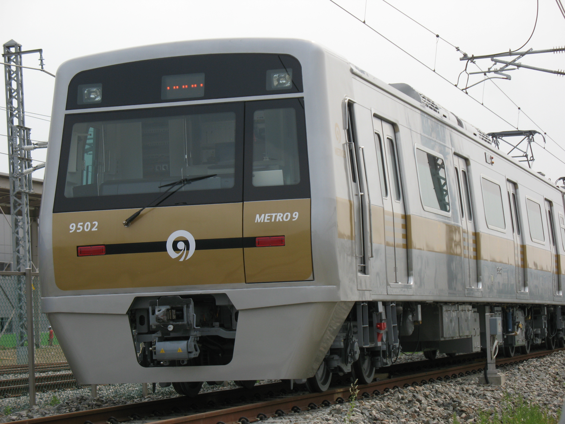 A Train of Seoul Subway Line 9.